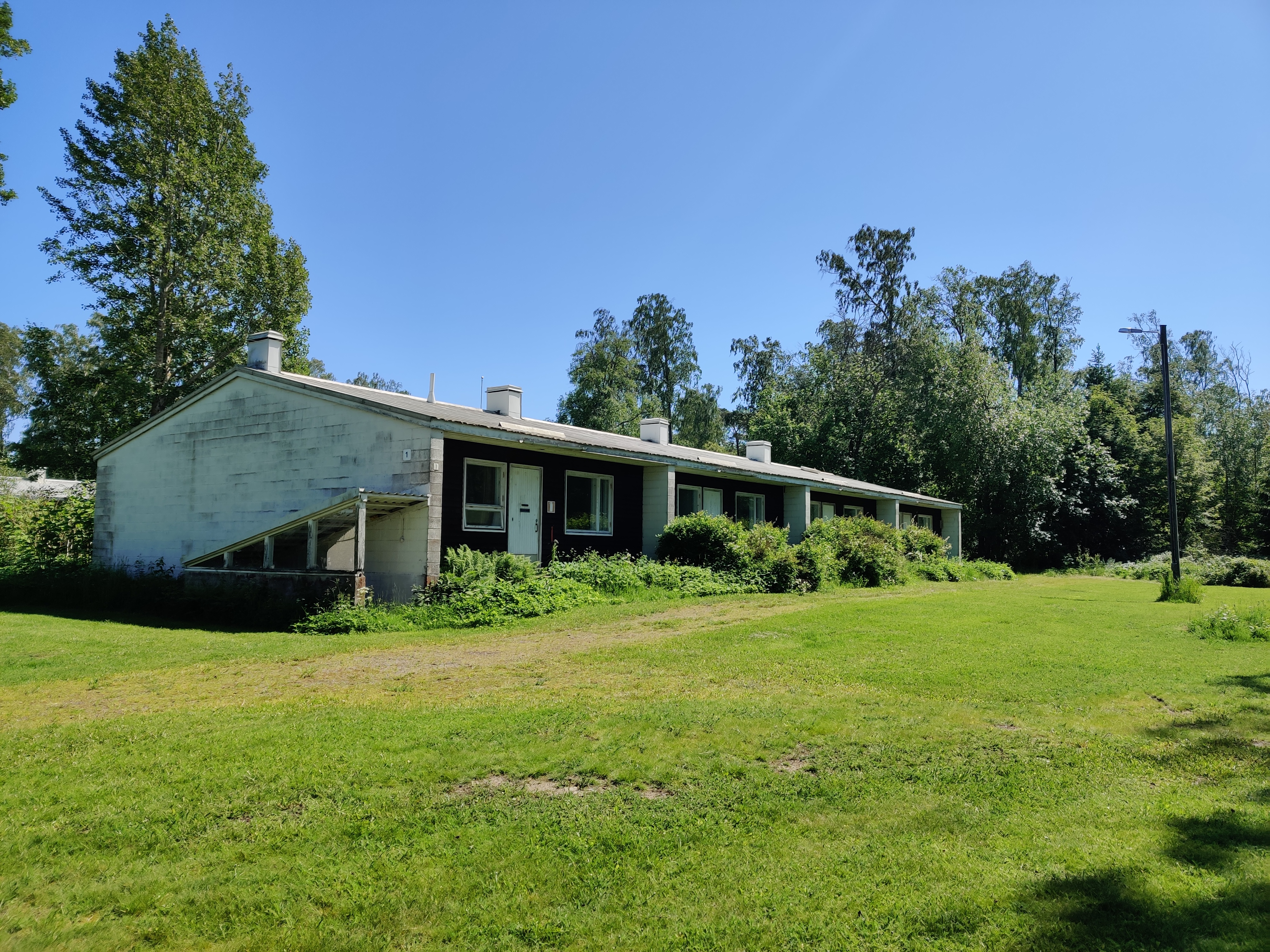 Terraced houses in Isosaari